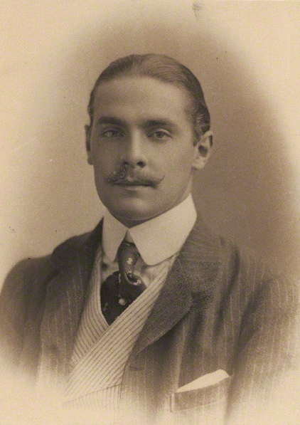 George Herbert Hyde Villiers in October of 1899 by an unknown photographer, vintage print on card mount